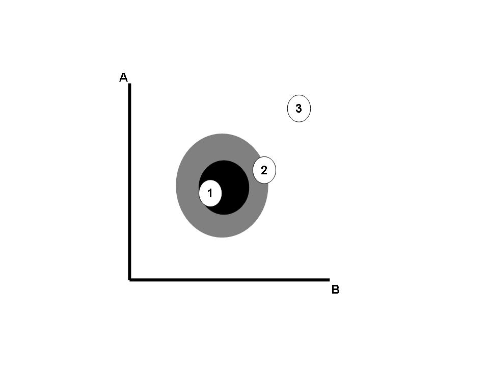 Illustration of ecological fitting. Based on -but modified- figure in Agosta, S.J., Janz, N., Brooks, D.R., 2010, How specialists can be generalists: resolving the ”parasite paradox” and implications for emerging infectious disease, Zoologia 27: 151–162